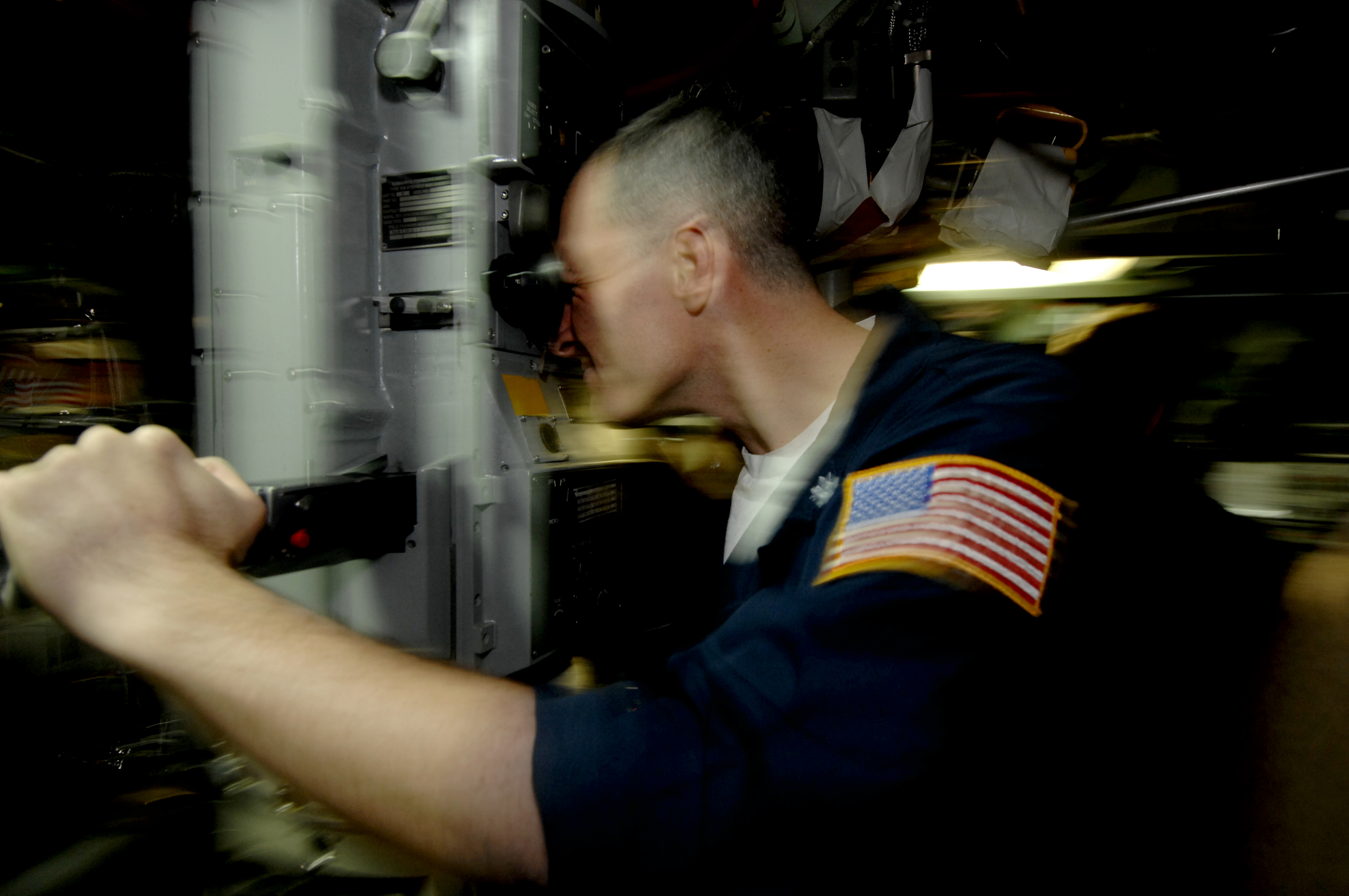 ARCTIC OCEAN (March 17, 2007) - USS Alexandria (SSN 757) commanding officer Michael Bernacchi looks through the periscope for a safe position to surface the boat. Alexandria surfaced through two feet of ice during ICEX-07, a U.S. Navy and Royal Navy exercise being conducted on and under a drifting ice floe about 180 nautical miles off the north coast of Alaska.